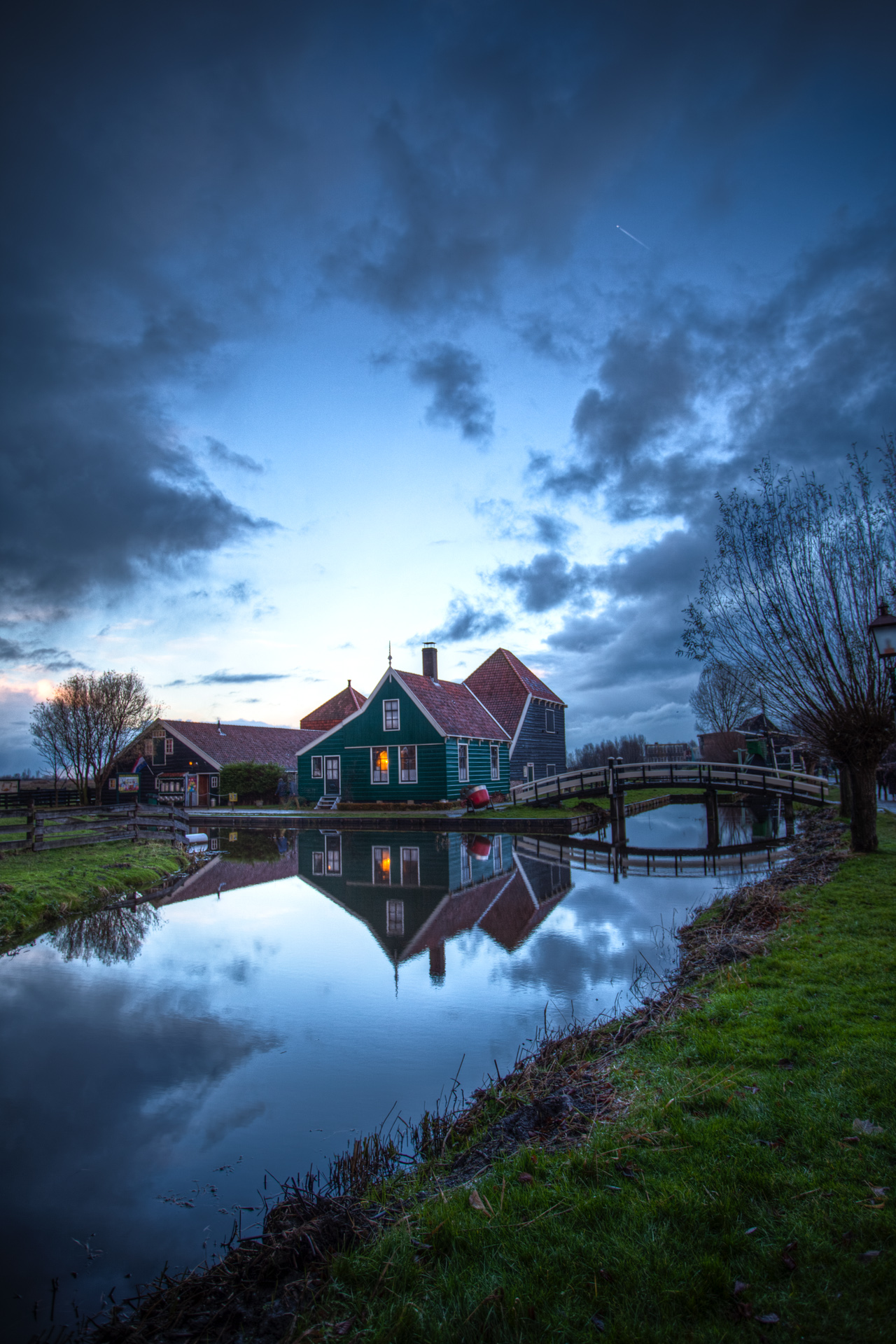 Evening in Zaanse Schanse, The Netherlands. Photograph by Anne Dirkse